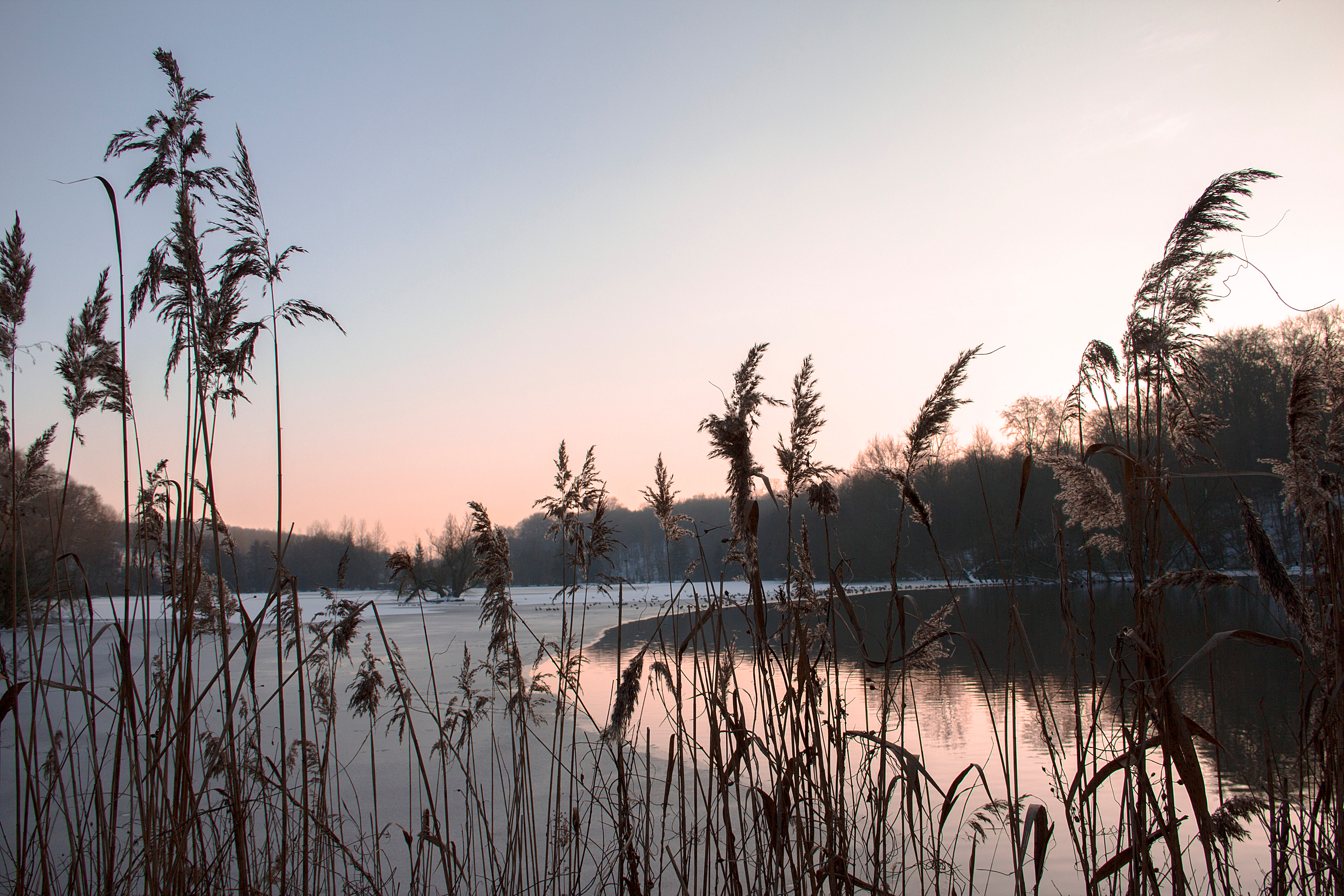 Saint-Denis (Belgium), one of the numerous ponds of the village.